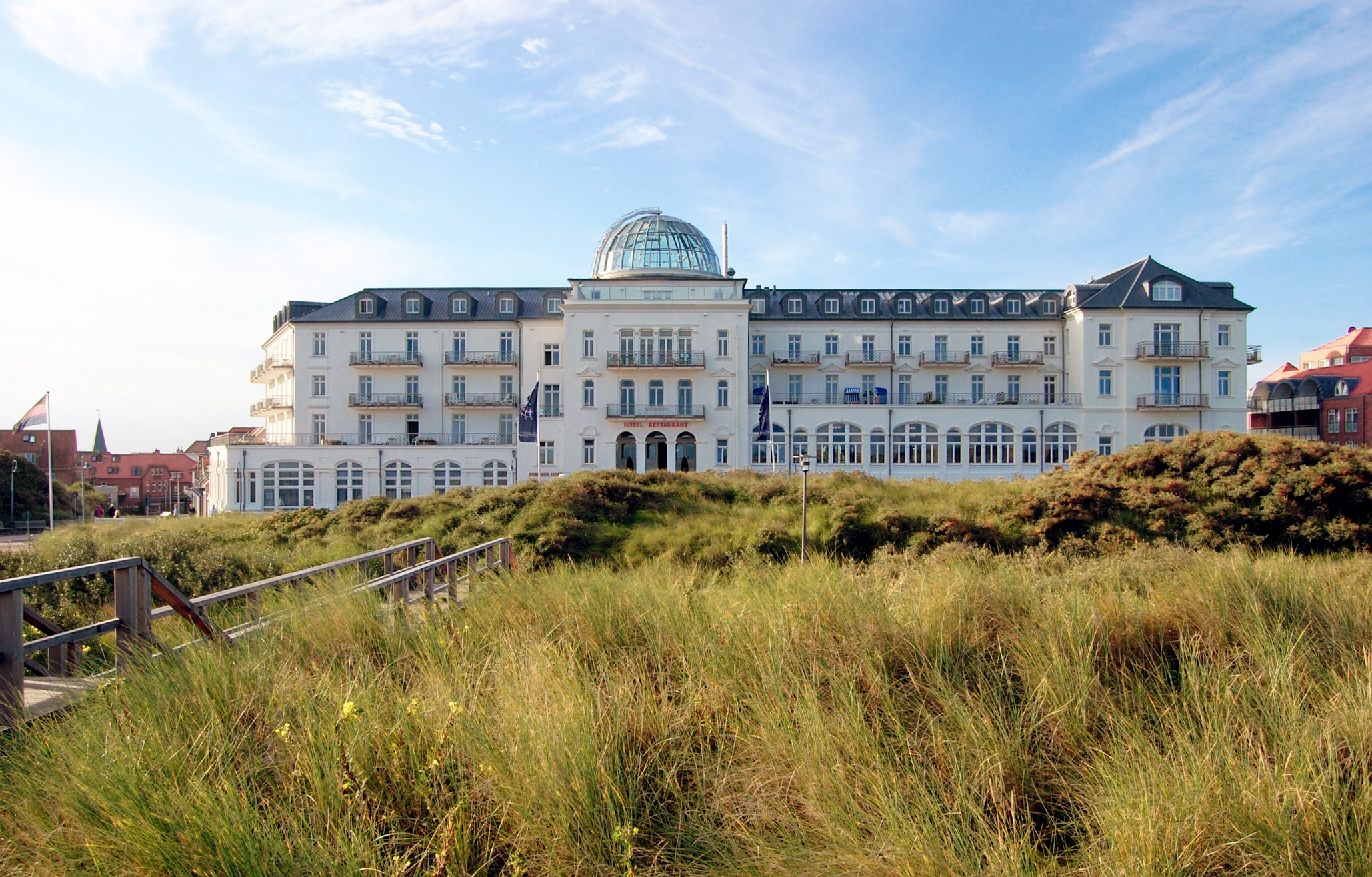 kurhaus Juist